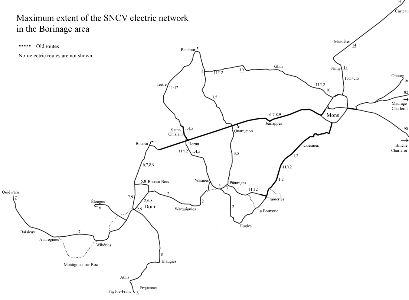 Map showing the electric tram routes in the Borinage area at the maximum extent. Not all lines where open at the same time and some routes were changed. The maximum extend was around 1954.